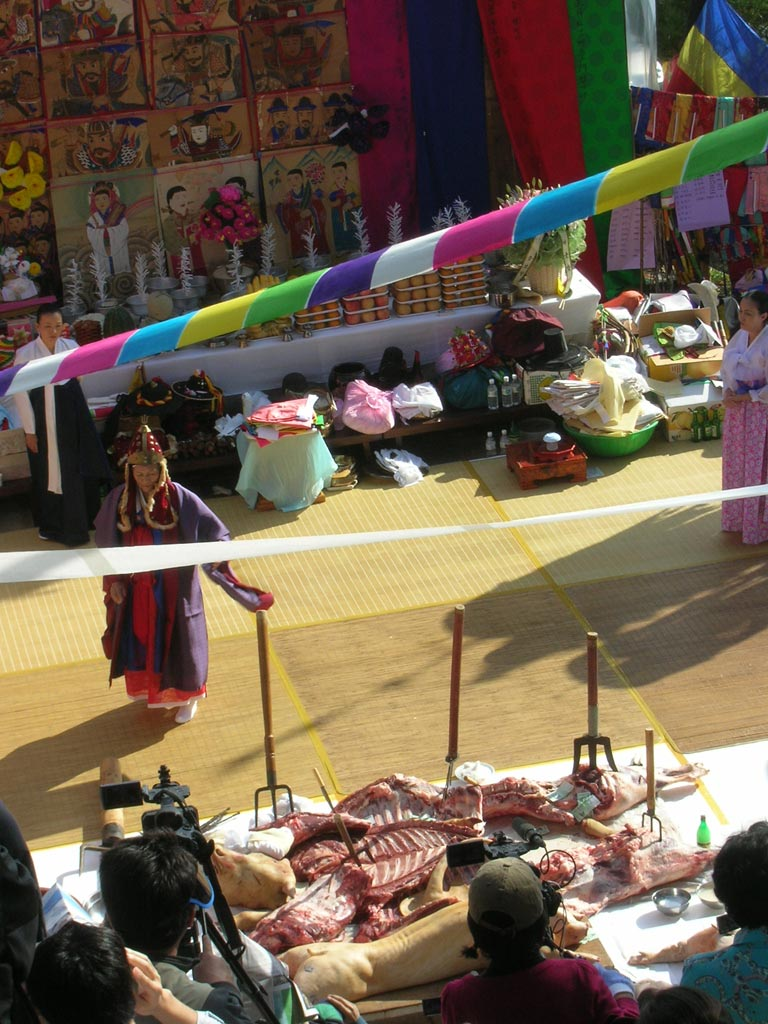 Gut/Good conducted in October 2007 in rural Korea. The forks on slaughtered pigs marks this as the tasal-geori ritual dedicated to war gods, characteristic of Hwanghae shamanism.